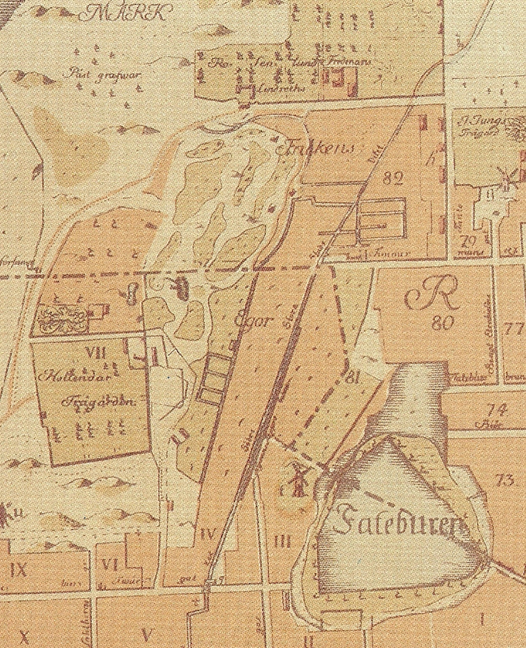 Map of Fatburen on Södermalm in Stockholm, 1733